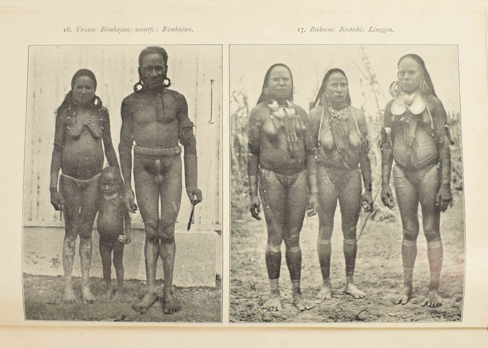 Rouffaer, G.P. et al.: De Zuidwest Nieuw-Guinea-Expeditie, 1904-5, Kon. Ned. Aardrijkskundig Genootschap, Leiden E. J. Brill, 1908 - 16. Bimbajans wife, their little son, Bimbajan. 17. Bakoem; Boetake; Linggoa (three women).